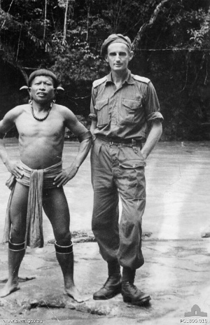 Black & white Summary: Northern Borneo. 1945. Informal portrait of Major G. S. Carter DSO, a New Zealand member of the Australian Services Reconnaissance Department, and a leading member of the Brunei native underground movement after Major Carter had parachuted into the country. (Formerly 3DRL 6204, original now in AWM Archive Store)